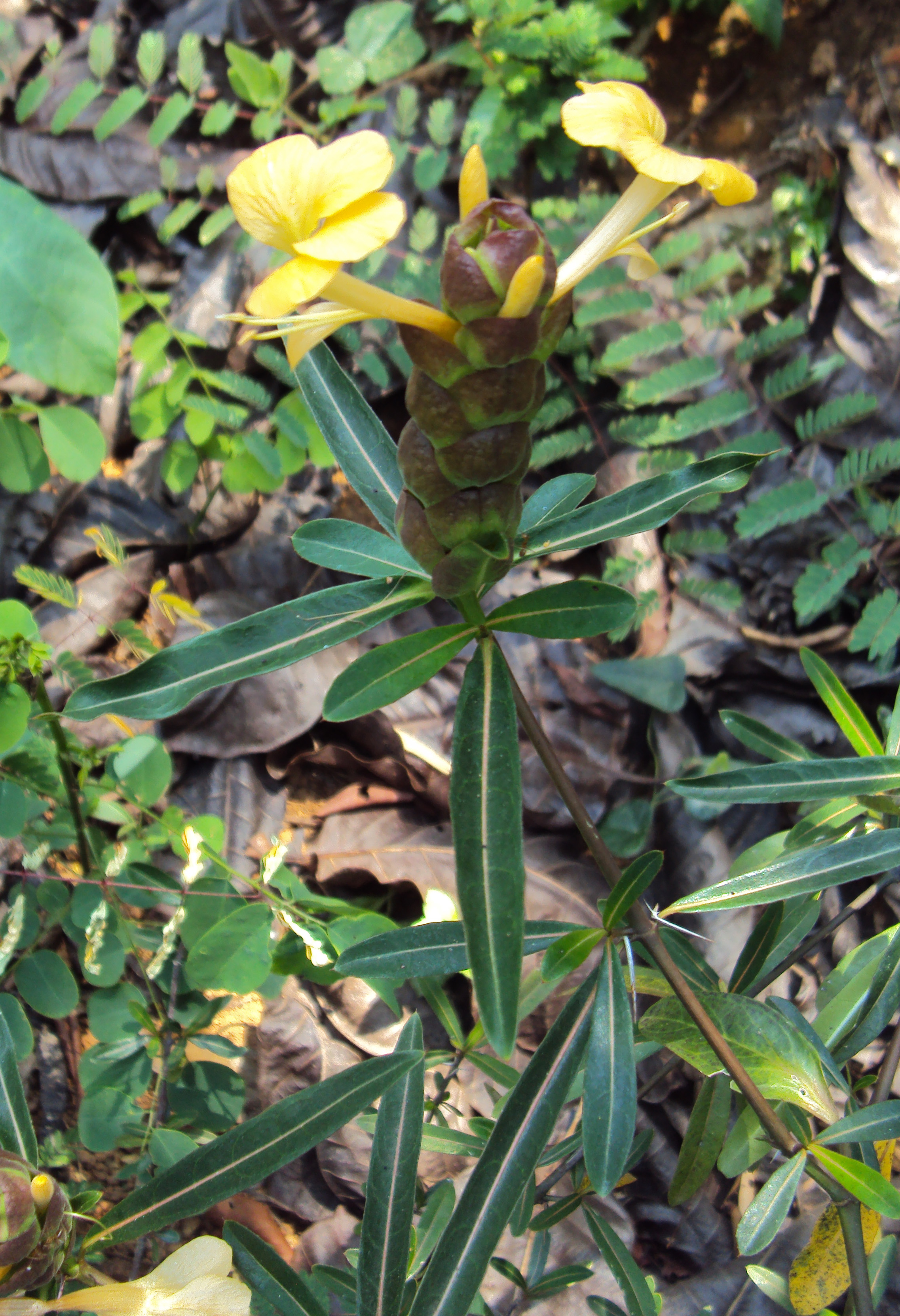 Barleria lupulina